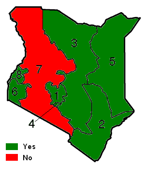 Referendum 2010 results - provinces of Kenya